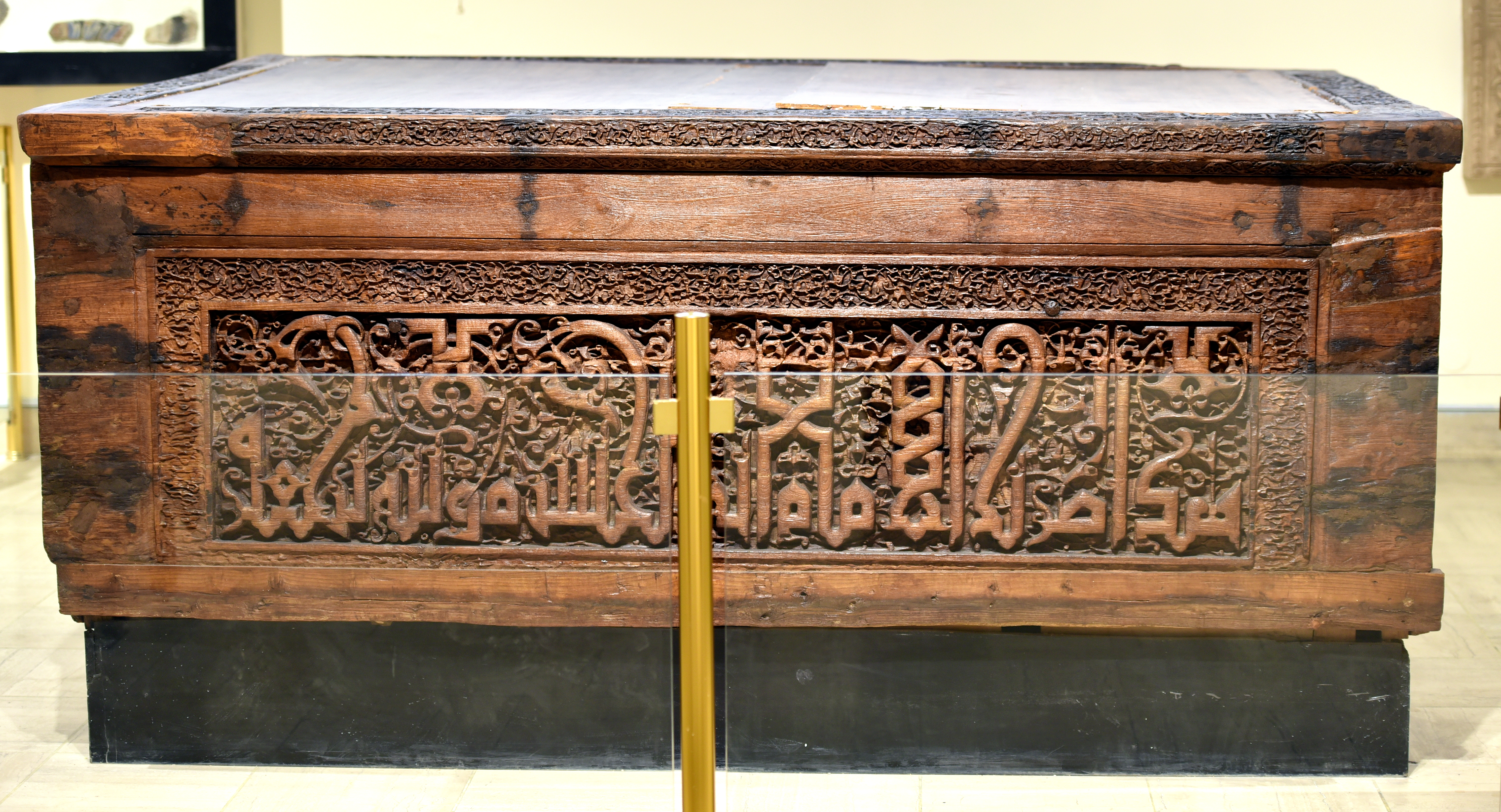 This wooden box was made by the order of the Abbasid Caliph Al-Mustansir Bi'llah (r. 1226-1242 CE) in the year 624 AH (1227 CE). L 260 cm, W 185 cm, and H 94 cm. The box was transferred (from modern-day Al-Kadhimiya Mosque, Kadhmain Shrine) to another place, the Tomb of al-Sahabi Salman Al-Mohammadi in Salman Pak town, southern Baghdad, in 769 AH (1367 CE). The upper lid is not original. On display at the Islamic Gallery of the Iraq Museum in Baghdad.